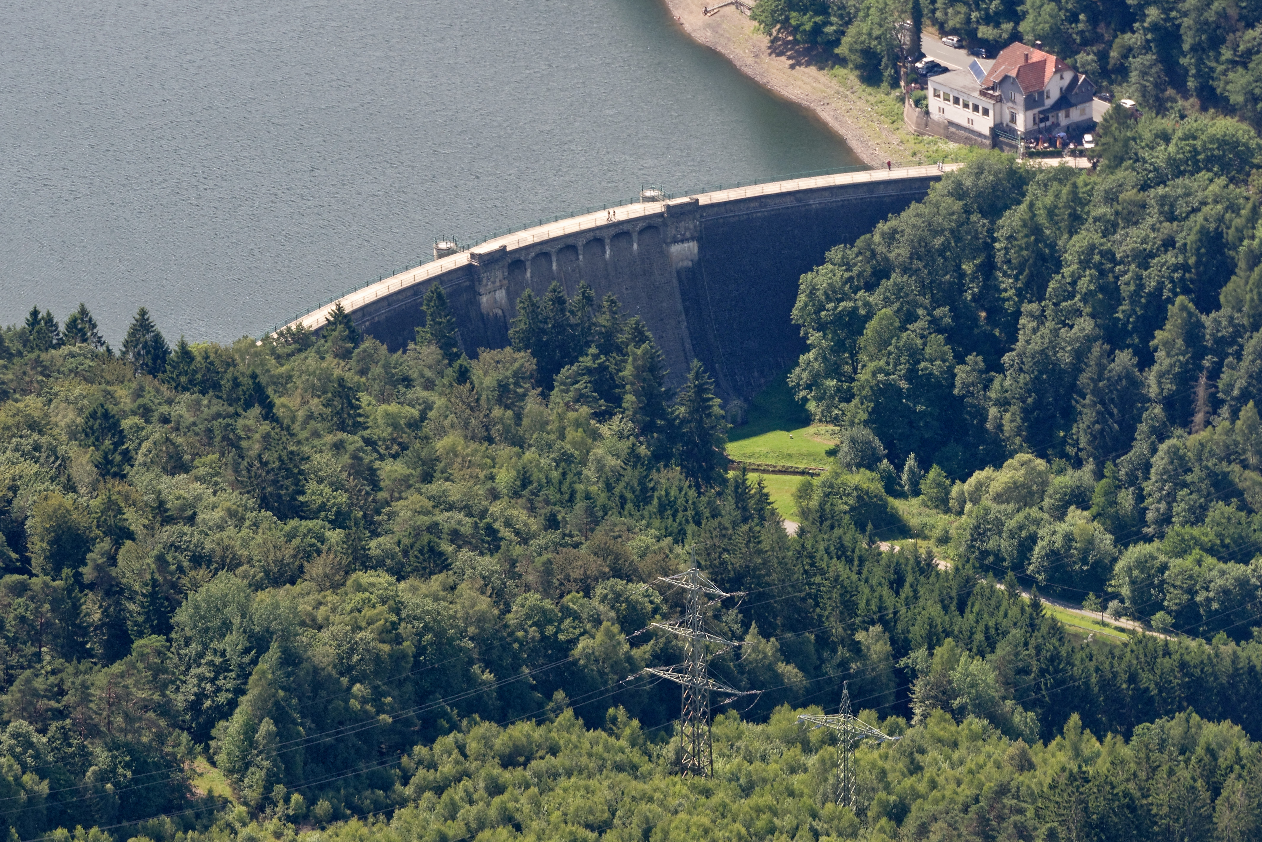 Sperrmauer Oestertalsperre The making of this document was supported by the Community-Budget of Wikimedia Germany.